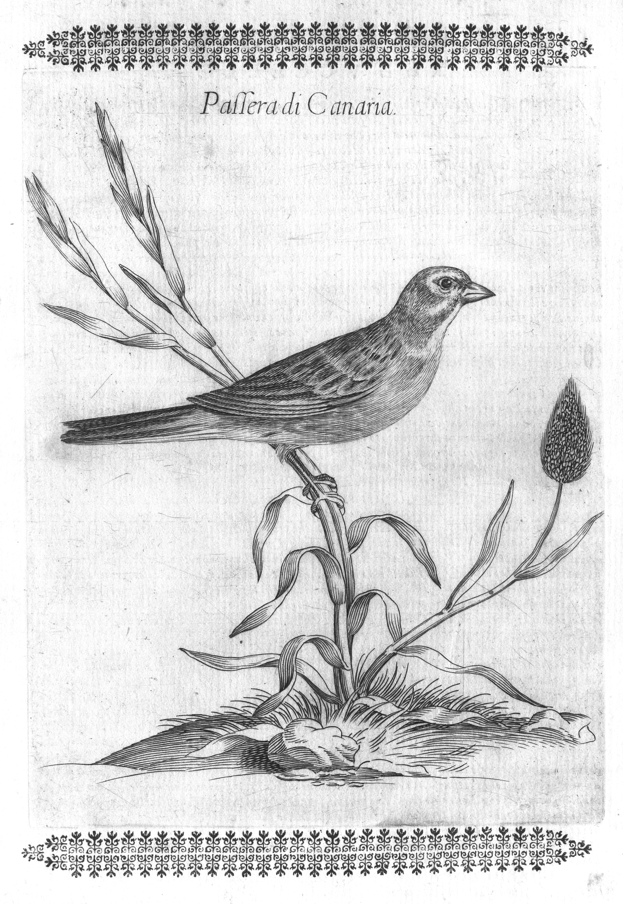 An early illustration of the canary from the 1684 edition of Uccelliera by Giovanni Olina